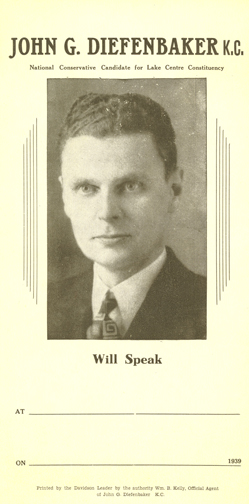 Election flier for John Diefenbaker, published in 1939 after Diefenbaker had been nominated as the Conservative candidate in the riding of Lake Centre for the upcoming federal election (which was ultimately held in 1940). "John G. Diefenbaker, K. C. , National Conservative Candidate for Lake Centre Constituency. 1939."